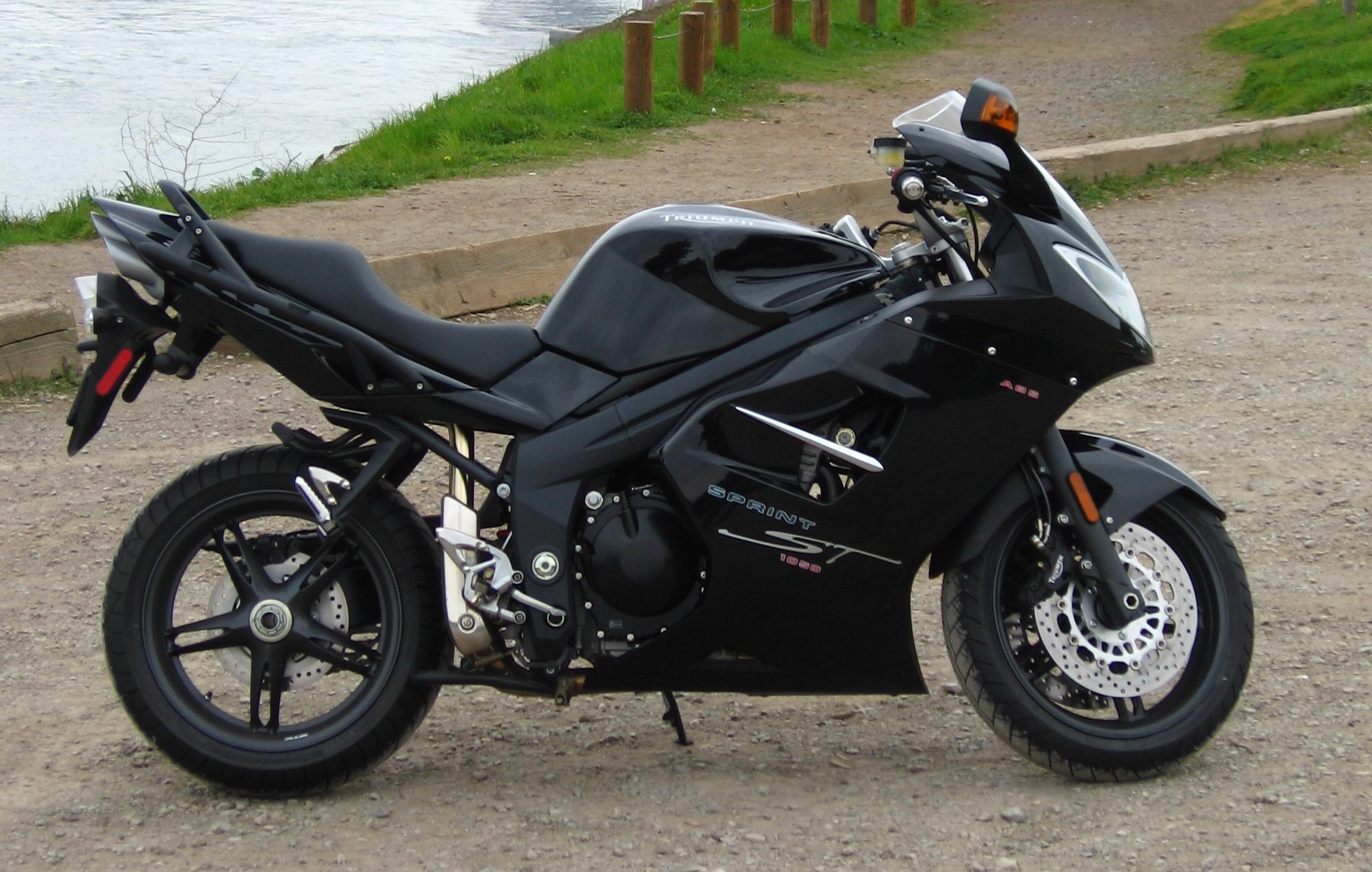 This picture was taken by the author in the Presidio. There is no copyright of any kind attached. It was taken because the author could not find any copyright-free professional photographs of the Triumph Sprint ST to accompany the article.